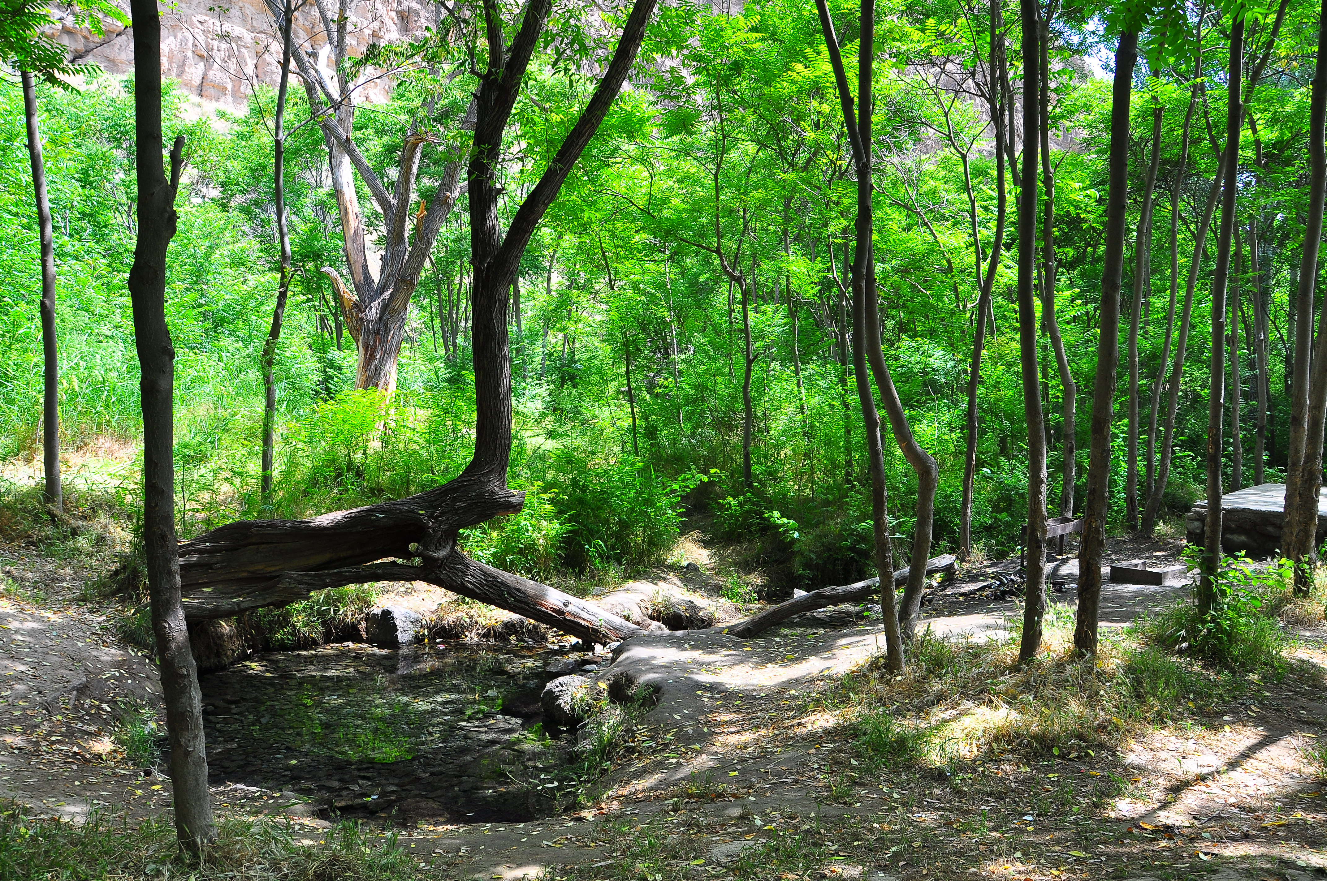 a place for rest in tandooreh